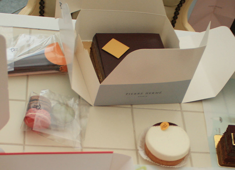 A selection of Pierre Hermé pastry creations, including macarons, Tarte Infiniment Vanille, and a special edition chocolate cake.